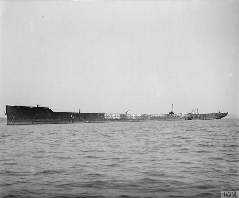 SALVAGING HMS CALEDONIA, FORMERLY SS MAJESTIC FROM FIRTH OF FORTH. 3 MAY 1942, BO'NESS. THE 56,000 TON LINER SS MAJESTIC WAS RAISED FROM DEEP WATER IN THE FIRTH OF FORTH AT THE FIRST ATTEMPT. EIGHTEEN HUNDRED PORTS AS WELL AS HULL OPENINGS HAD TO BE SEALED BY DIVERS BEFORE SHE COULD BE PUMPED DRY. THE MAJESTIC HAD ENDED HER SERVICE AFLOAT AS THE TRAINING SHIP HMS CALEDONIA. SHE SANK AFTER A DESTRUCTIVE FIRE IN SEPTEMBER 1939. SHE PROVIDED NEARLY 40,000 TONS OF FIRST CLASS STEEL FOR THE WAR EFFORT.General view of the hull.